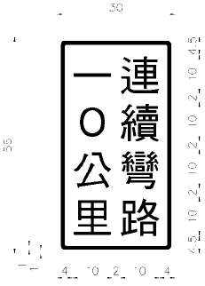 Taiwanese Supplemental Plate for Signs "Warn 3" and "Warn 4": Twisted Road for 10 km (This Chinese plate explains the length of a twisted road. Be very slowly careful if unable to road Chinese.)